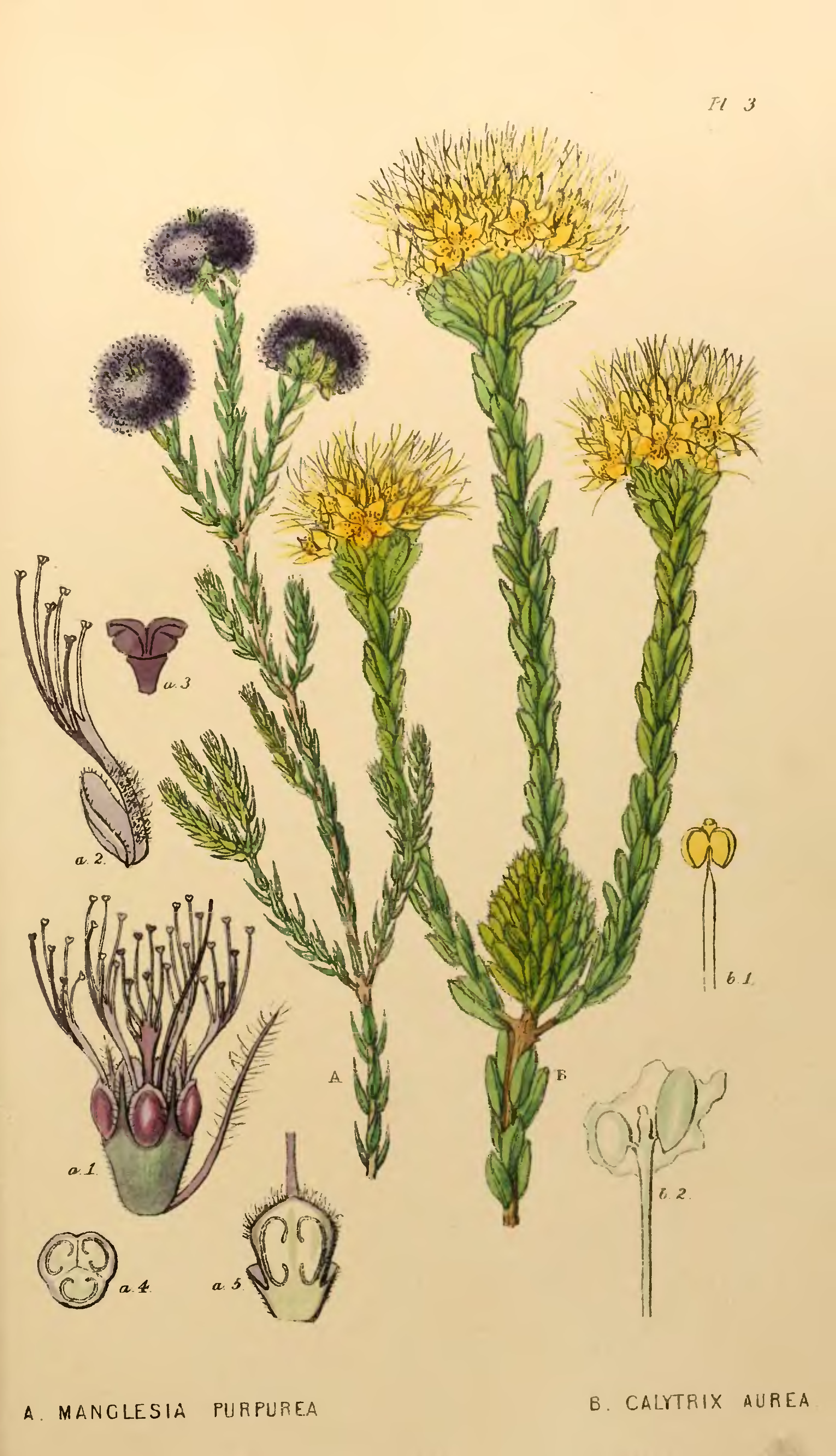 This is a plate from A sketch of the vegetation of the Swan River Colonyby John Lindley. The plants depicted are Beaufortia purpurea and Calytrix aurea. In the former case, the plate says "MANGLESIA" but the plant is otherwise referred to as a Beaufortia throughout the work.